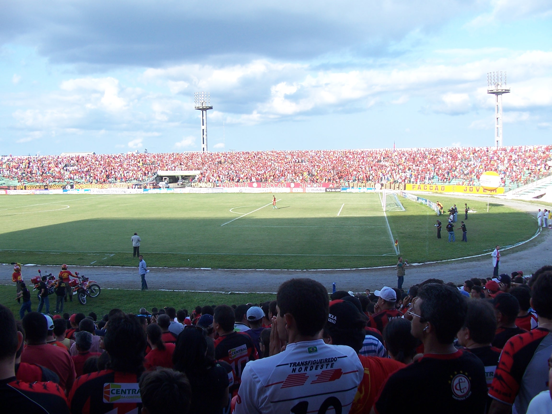 campinense fans